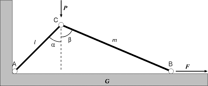 Drawing of toggle joint.